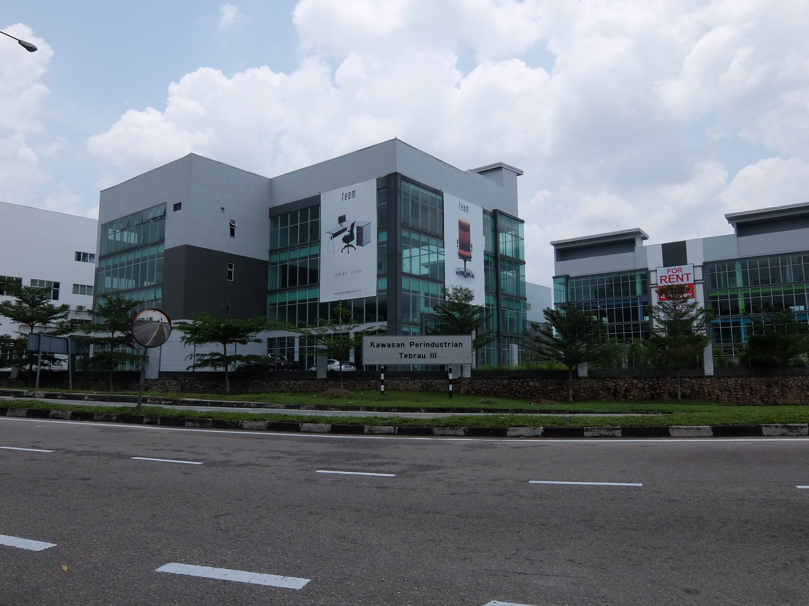 Tebrau III Industrial Area, Tebrau, Johor Bahru, Johor, Malaysia